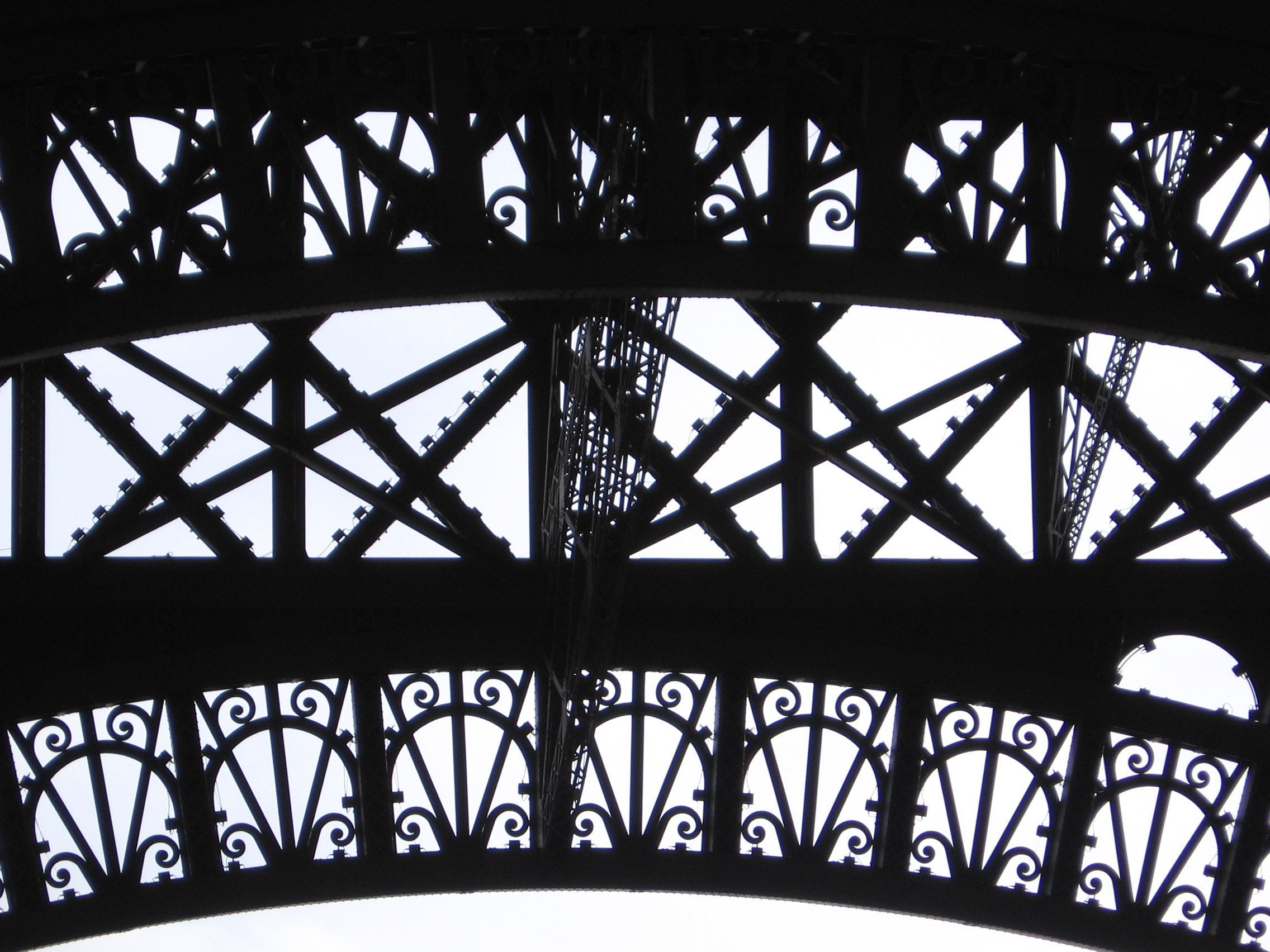 Iron work of Eiffel Tower